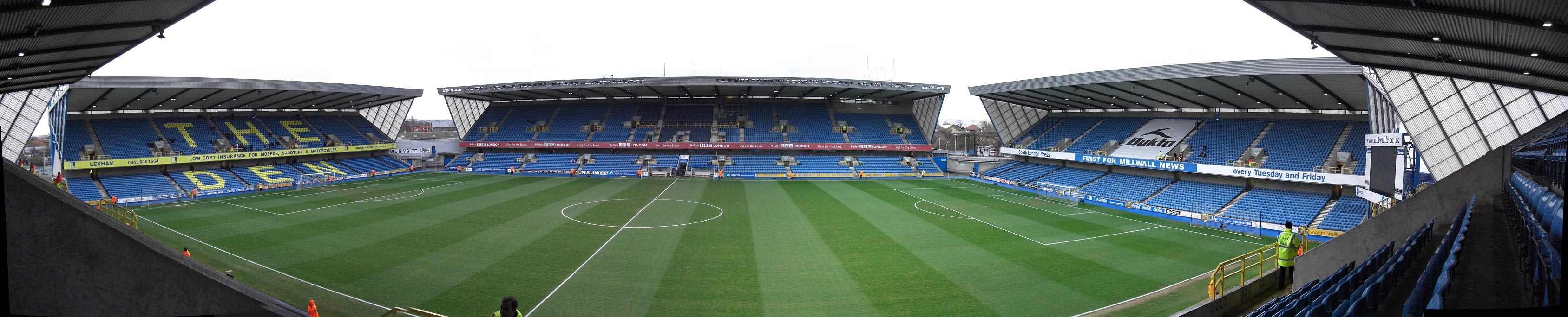 The New Den Stadium. The home ground of Millwall FC, London, England. Built 1992-1993.